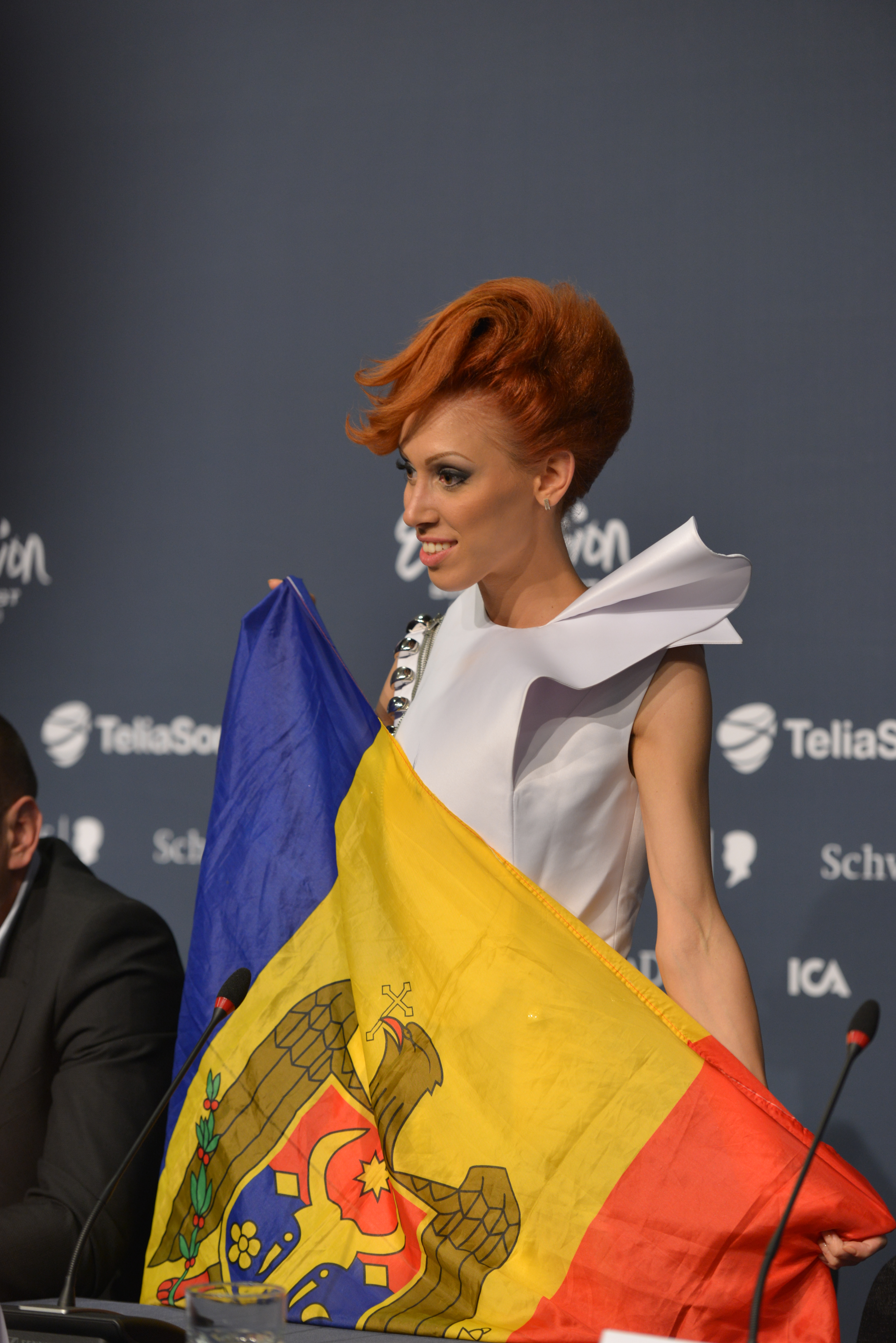 Aliona Moon at a press conference during the Eurovision Song Contest 2013 in Malmö. (Help translate this text)